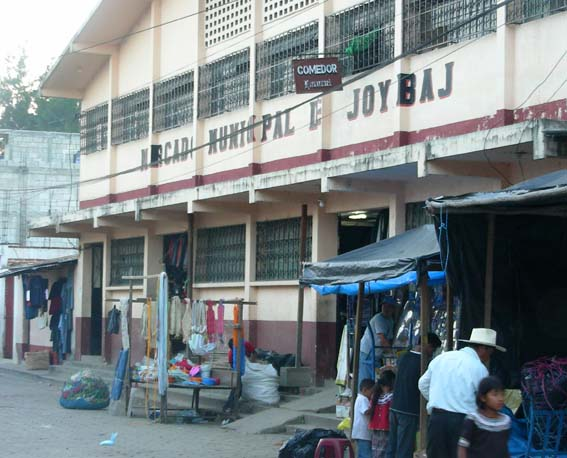 Municipal Market of Joyaba